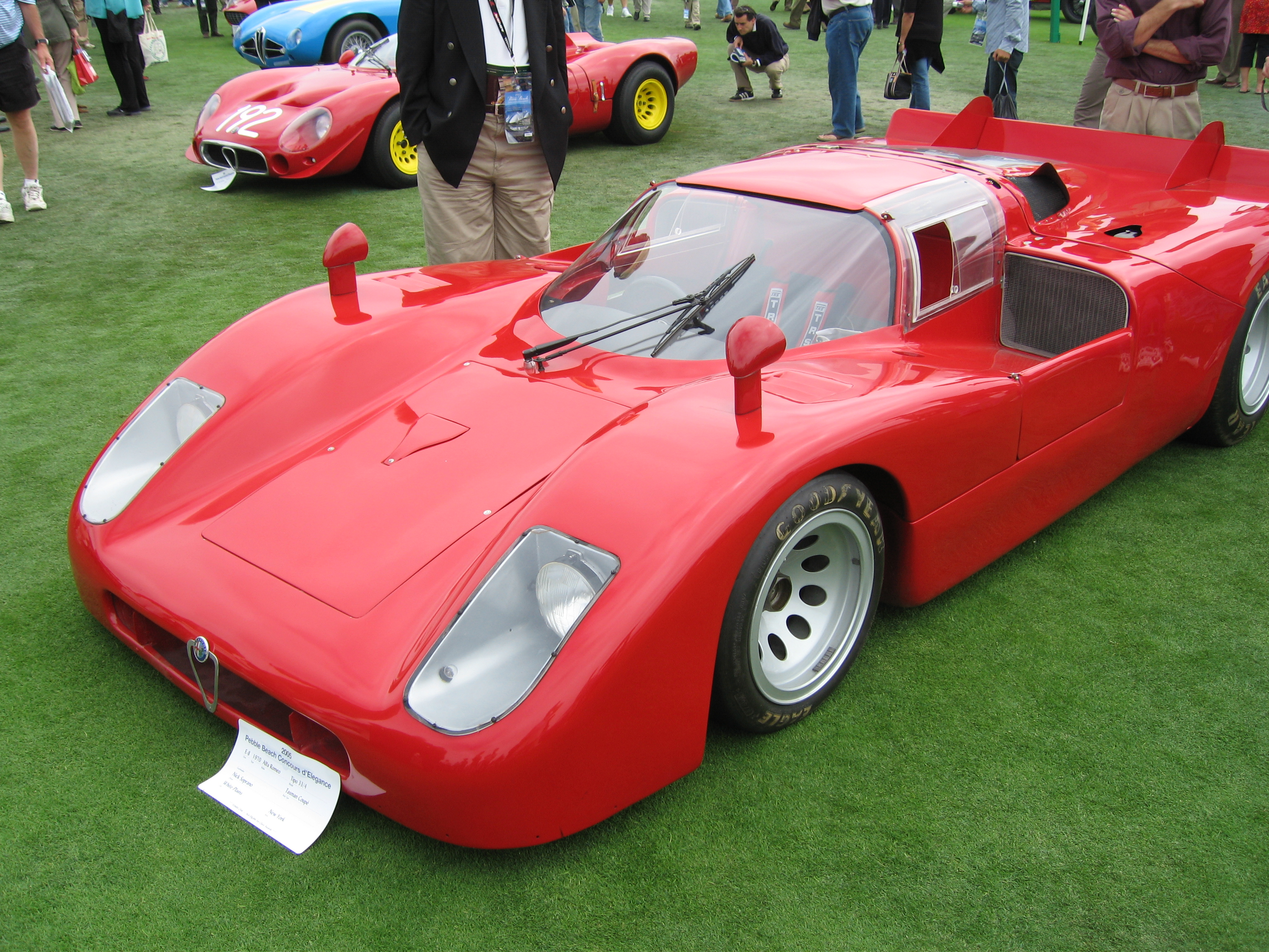 An Alfa Romeo Tipo 33/4 at 2005 "Pebble Beach Concours d'Elegance"